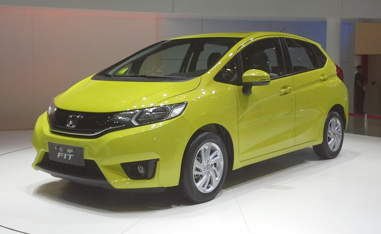 Honda Fit GK photographed at the Auto China 2014, Beijing, China.